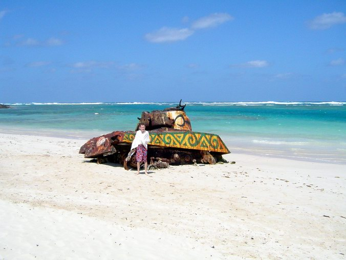 Old tank at Flamenco Beach, Culebra, Puerto Rico